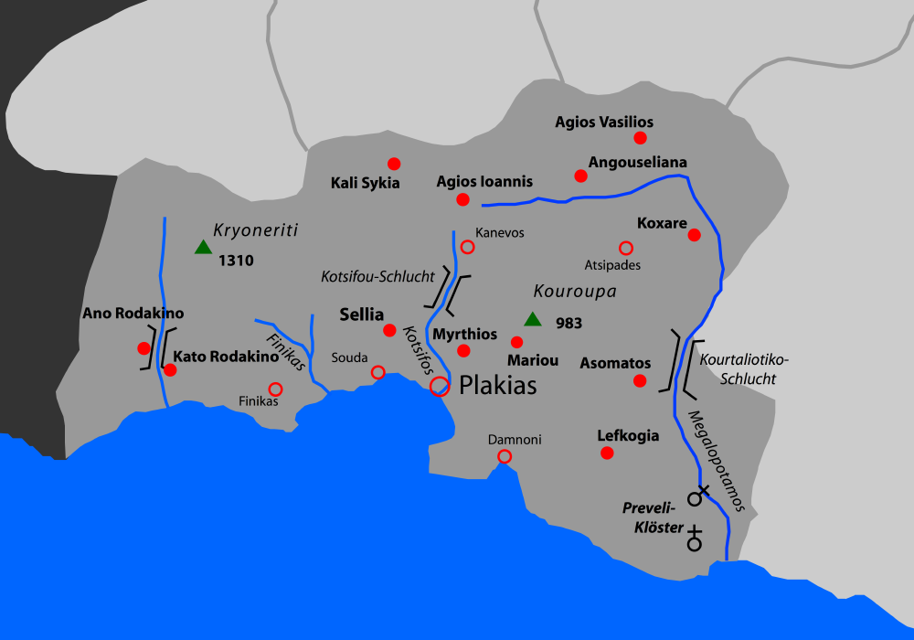 Finikas, Rethymno, Greece